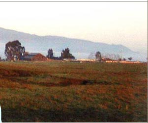 Agricultural field greenbelt land open-space easement coordinated by the Land Conservancy of San Luis Obispo County. Located in San Luis Obispo County, central California. The Land Conservancy of San Luis Obispo County owns all the images and logos on its website.